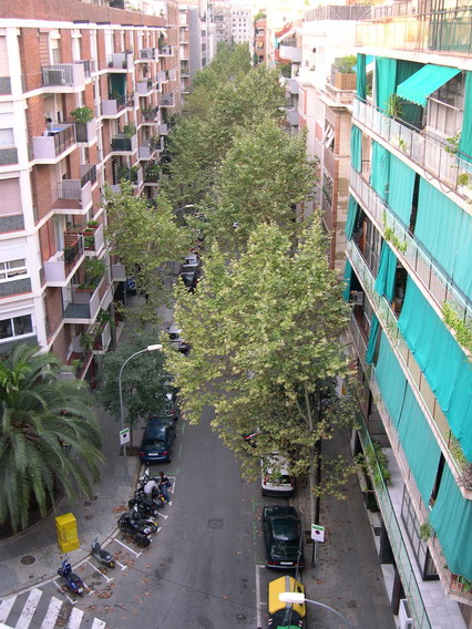 Loreto street, les Corts, Barcelona, Catalonia